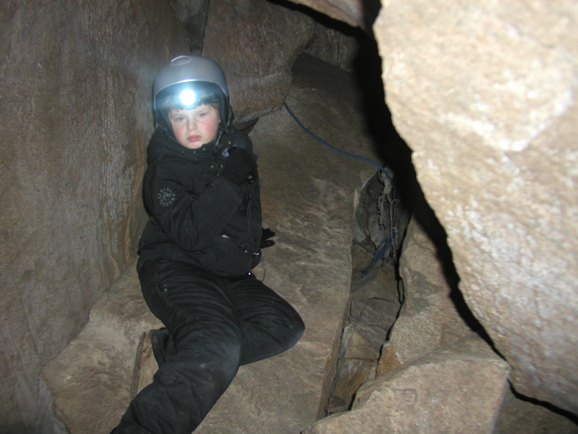 Inside the cave system Rudtjärnsgrottorna, Sweden. About 20 meter in and under ground. 10 year old boy investigating the caves.